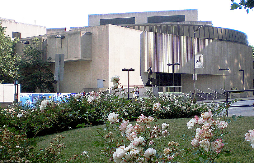 The David Lawrence Hall at the University of Pittsburgh. photo by Michael G White